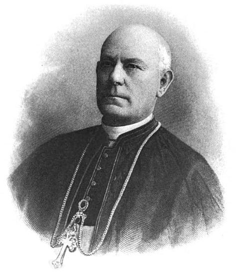 Photo of John Lancaster Spalding, first Bishop of Peoria